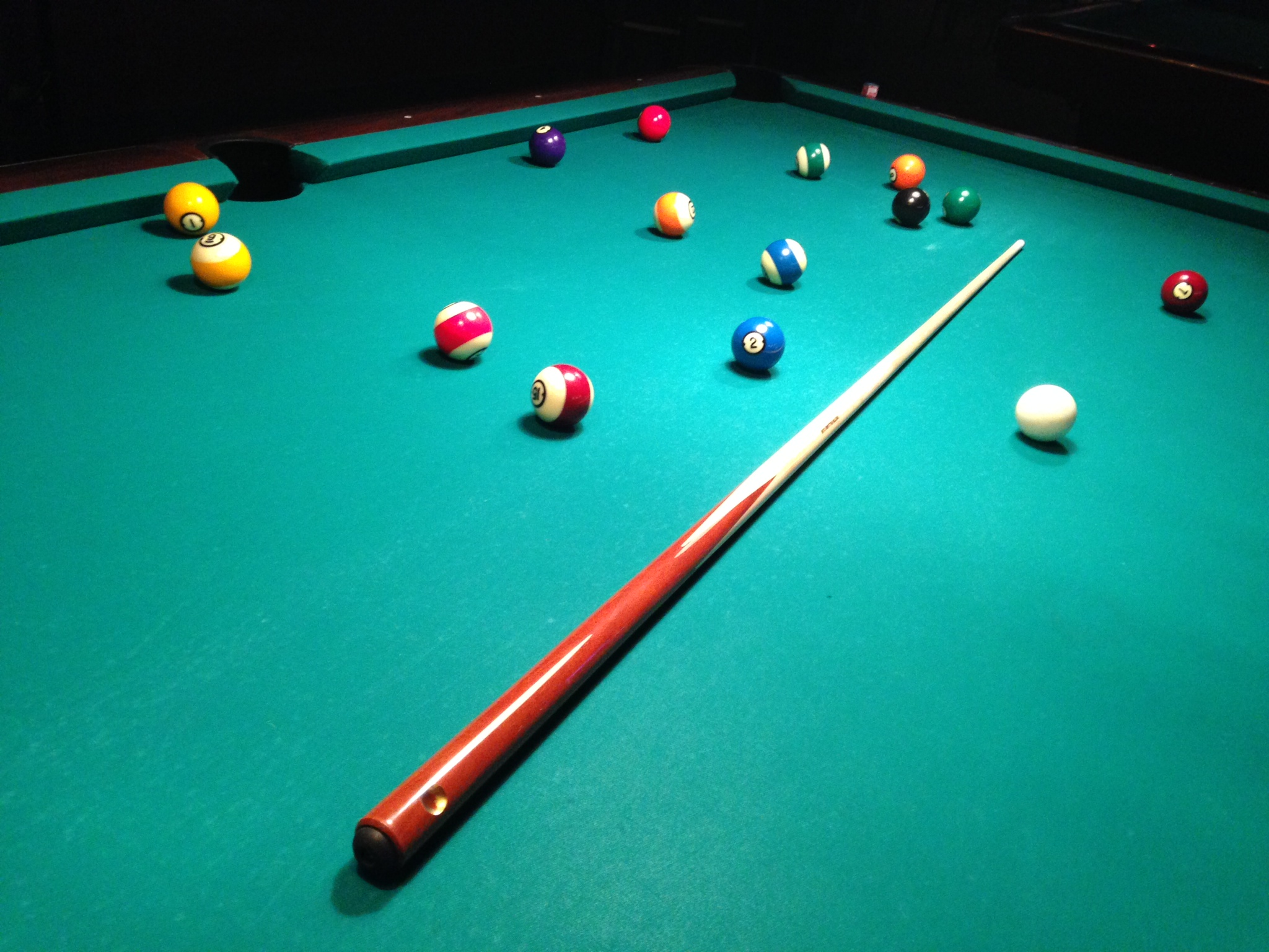 after the break